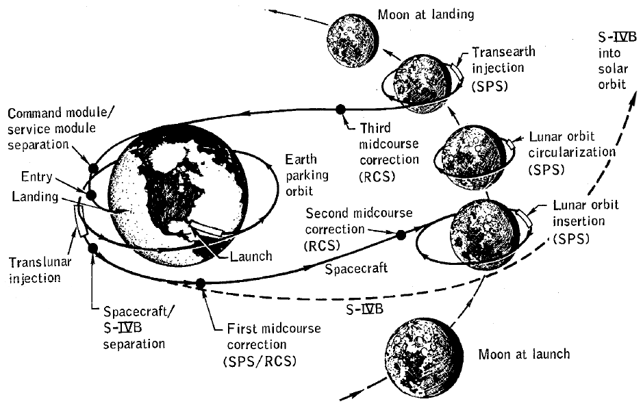 Apollo 8 mission profile